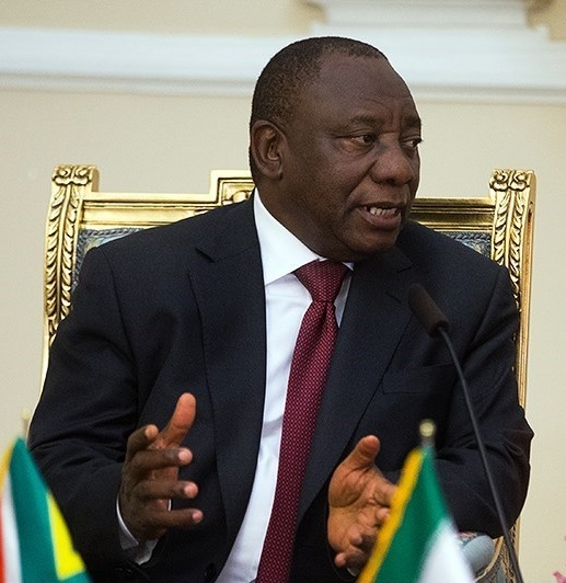 Cyril Ramaphosa, Deputy President of South Africa meeting with Iranian parliament chairman, Ali Larijani in Tehran